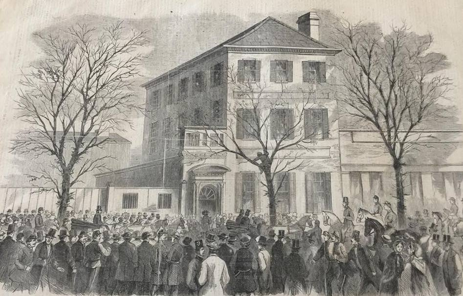 Effective January 7, 1861, the Gov. Pickens' executive headquarters were moved to 107 Meeting Street (old street numbering, 155 Meeting Street today) where word of the Star of the West incident were received.